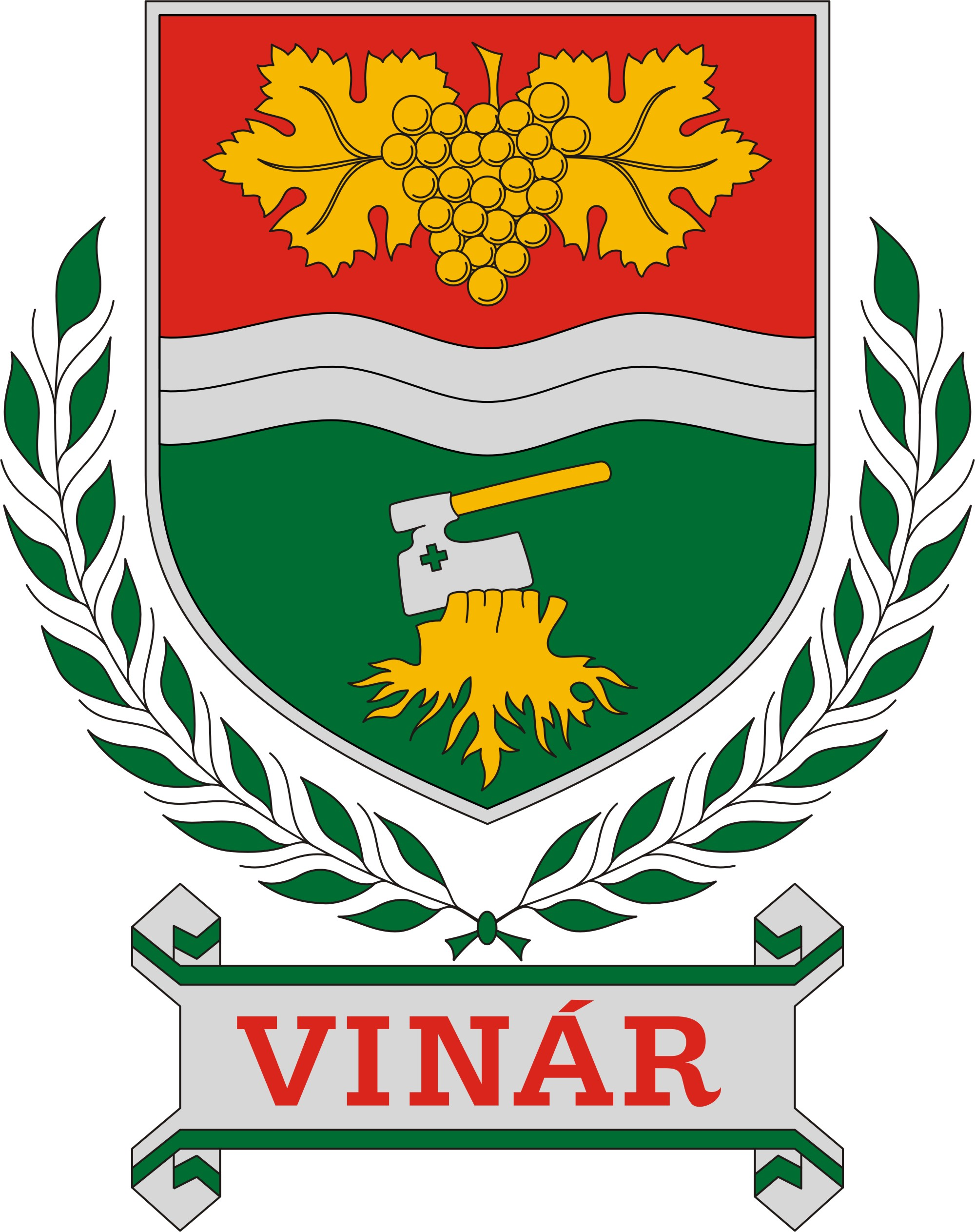 Coat of arms of Vinár, Hungary